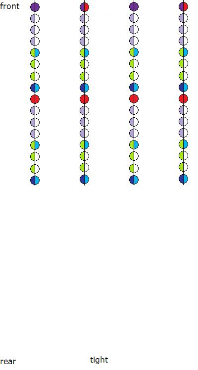 Two enomotiæ in tight formation.